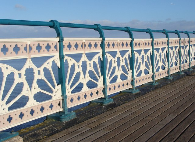 Penarth Pier railings, Penarth, Wales.